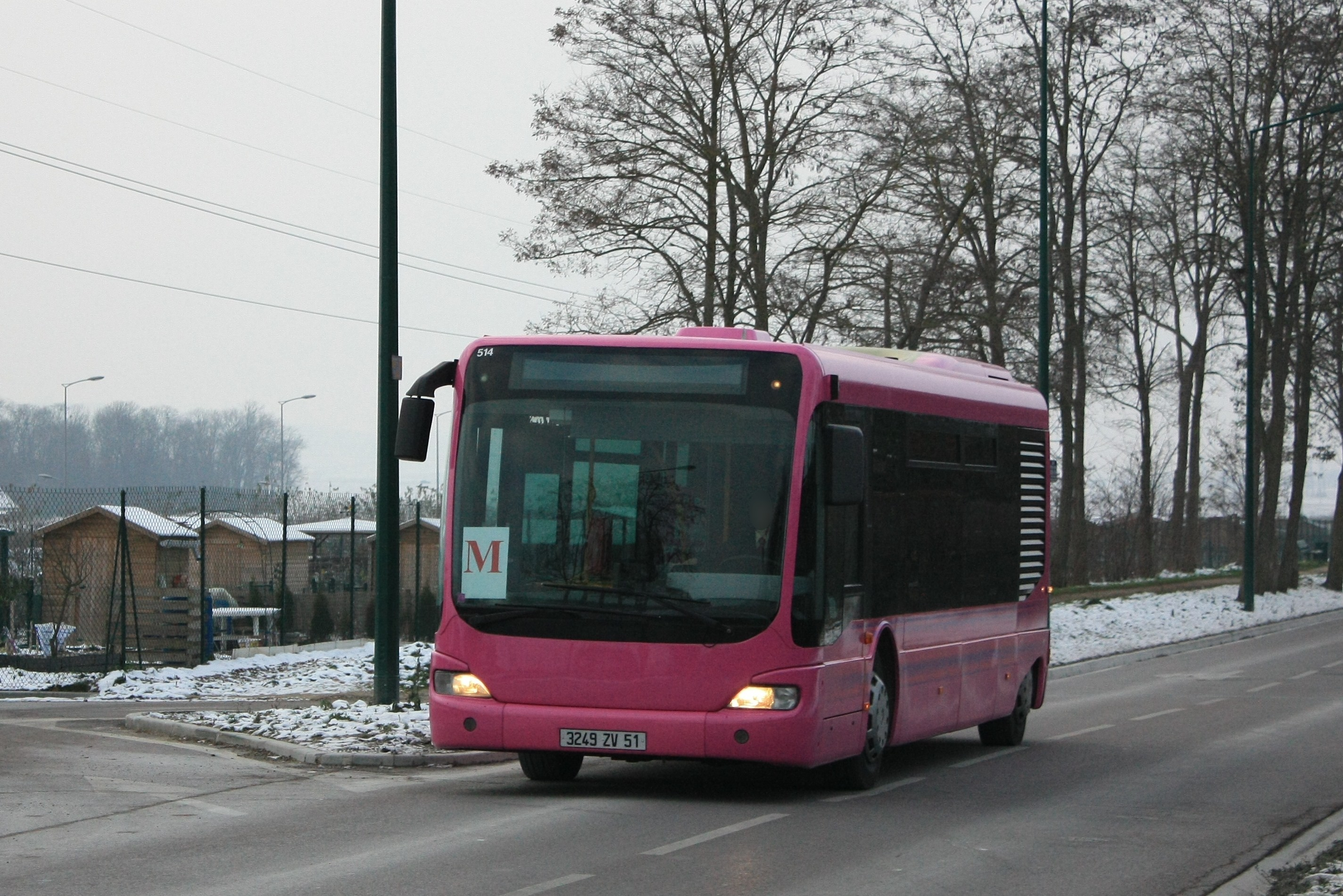 Mercedes-Benz Cito - réseau / network Citura - Reims Date: 2010-12-03 Source/Author: own